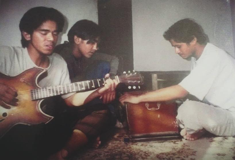 Cool Pokhrel With His Buddies